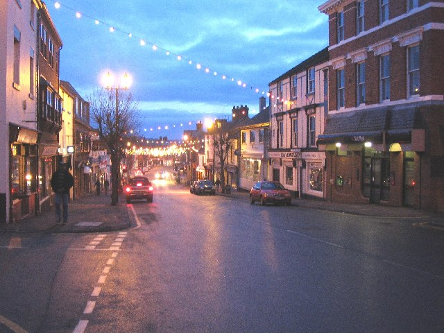 Christmas Lights at Mold. A view looking southeast down the festively decorated main street at Mold.